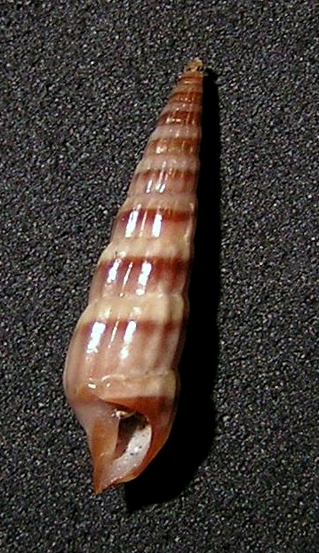 Strioterebrum plumbeum (Quoy & Gaimard, 1833); family Terebridae; South China Sea